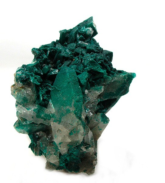 Pseudomalachite, Quartz Locality: Old Gunnislake Mine, Gunnislake Area, Callington District, Cornwall, England, UK (Locality at ) A crystal druse of lustrous, emerald green, pseudomalachite has formed on colorless, quartz crystals, to 2.5 cm in length. This is an oldtime specimen from the heart of Cornwall. Most unusual - I have not seen another 6.2 x 4.6 x 2.1 cm